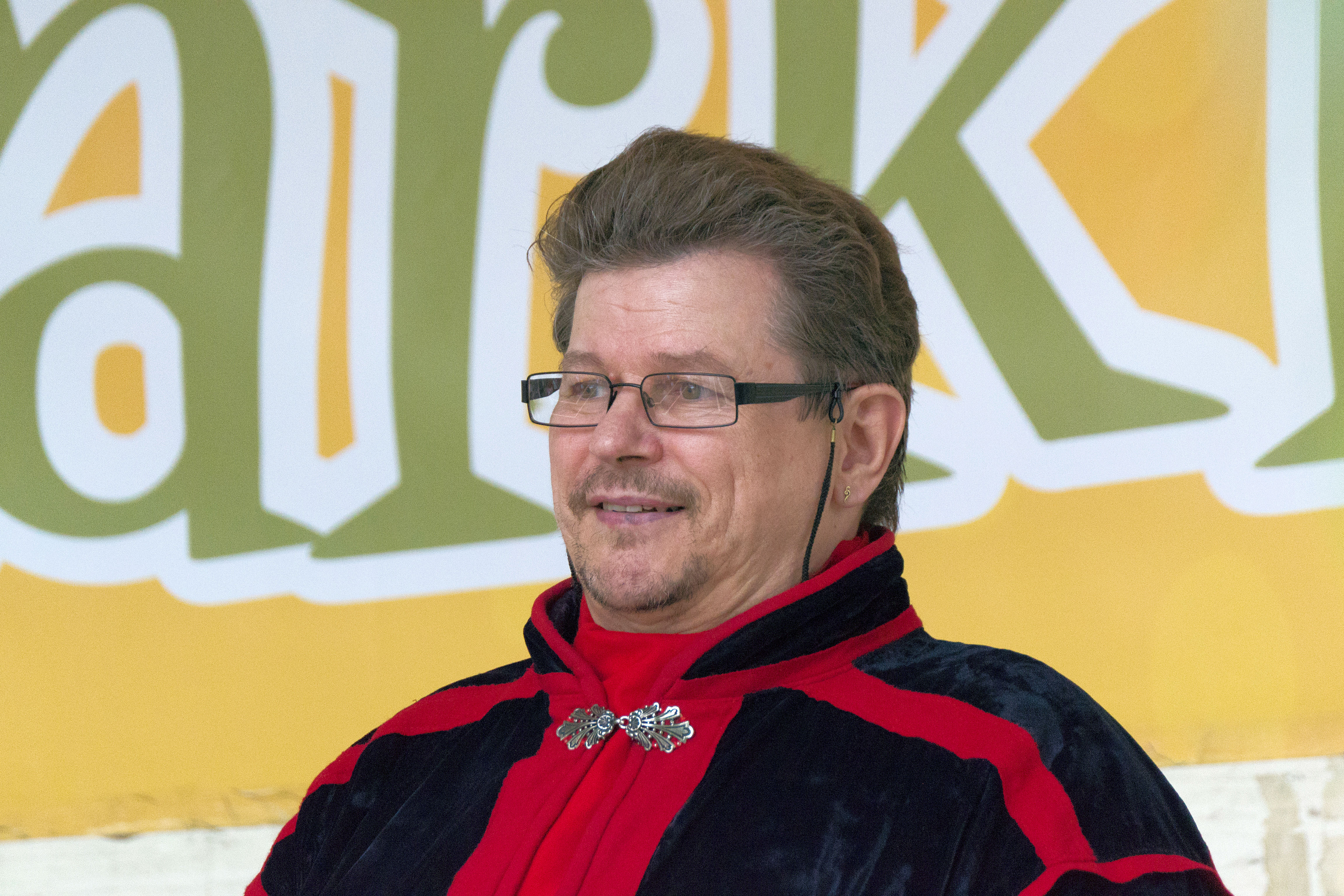 Eero Magga